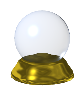 A Crystal Ball I created in 3D. Supports transparency.